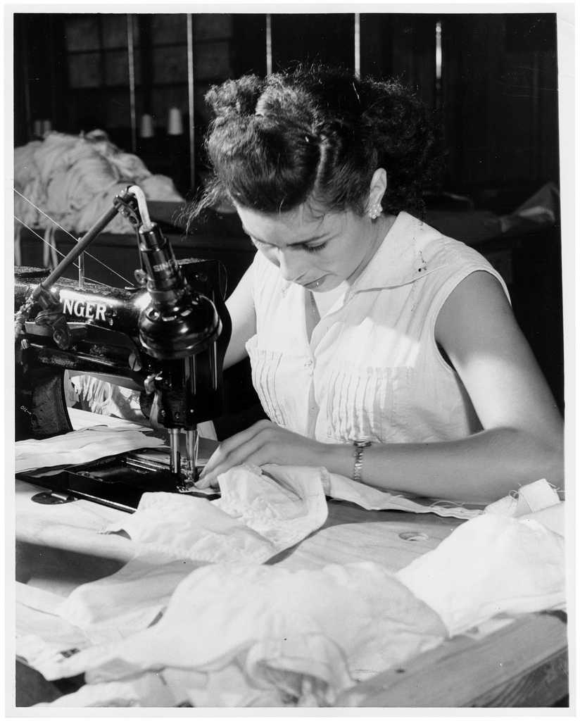 International Ladies Garment Workers Union Photographs (1885-1985)